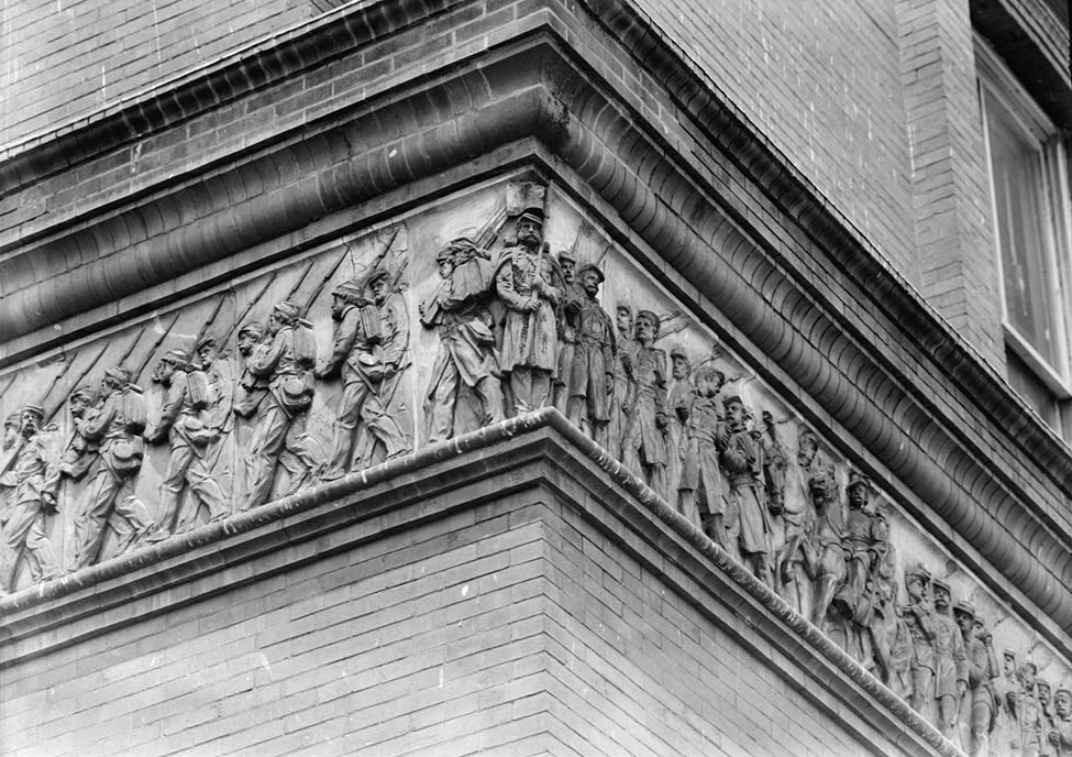 16. SOUTHEAST CORNER, DETAIL, TERRA-COTTA FRIEZE BETWEEN FIRST AND SECOND STORIES - Pension Building, 440 G Street Northwest, Washington, District of Columbia, DC